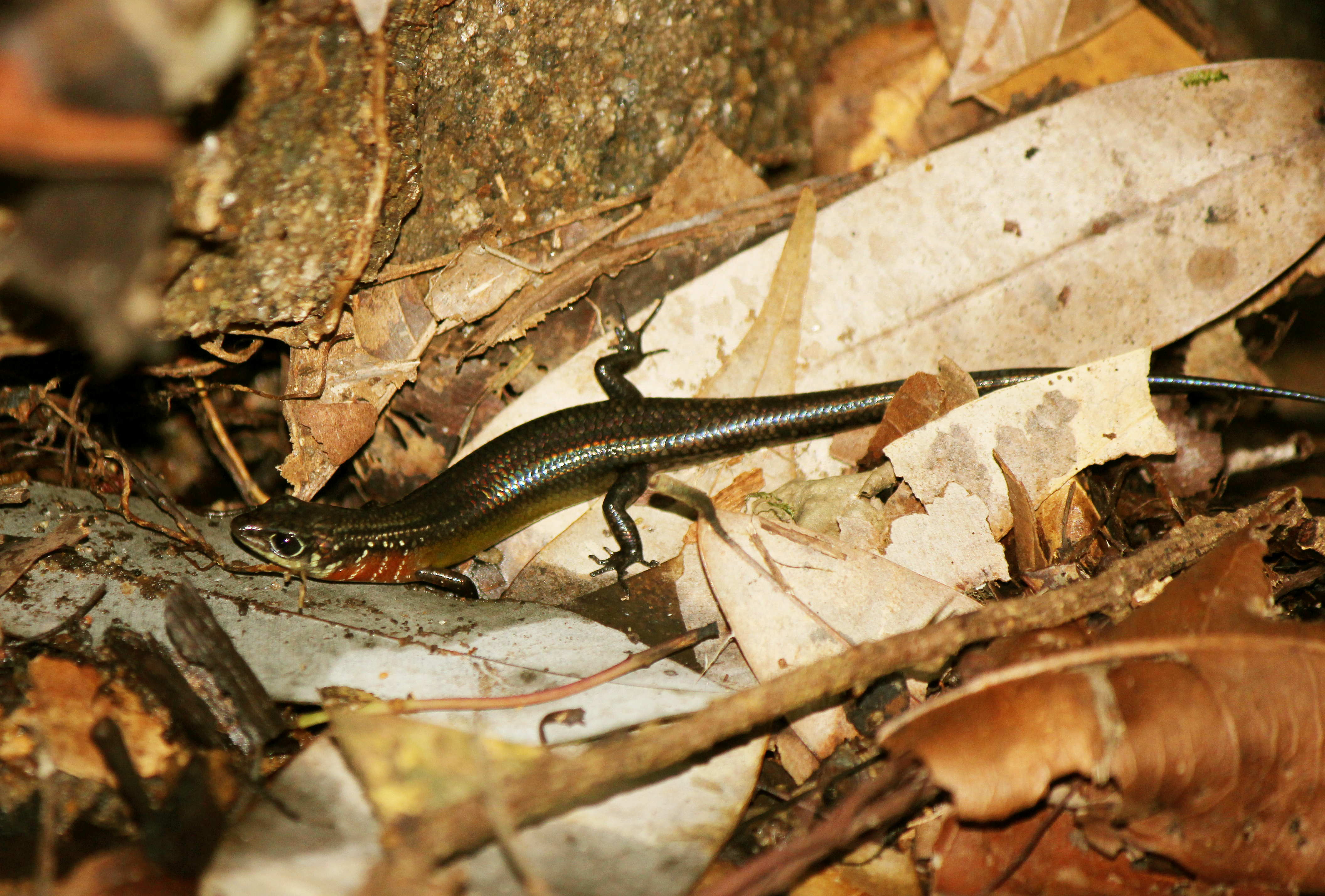 Lankascincus gansi is an endemic species of skinks found in Sri Lanka